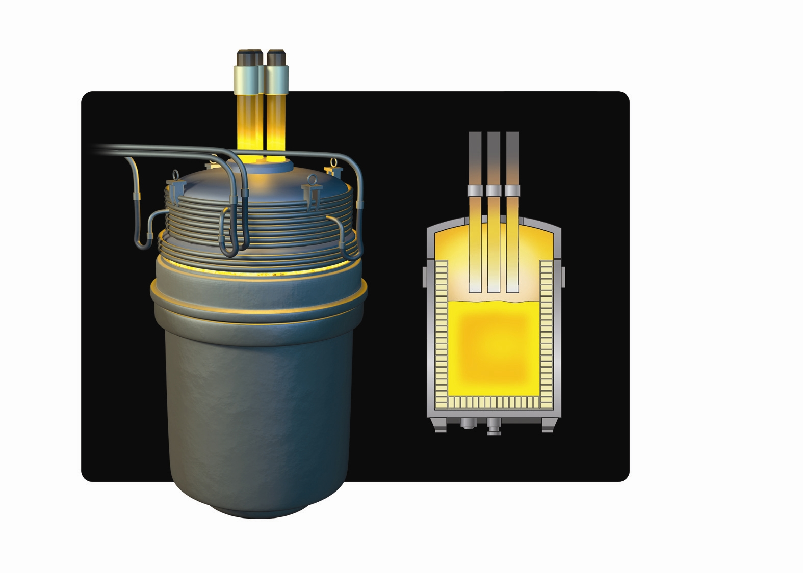 Refining of tool steel in ladle : electric arc furnace for steel ladle